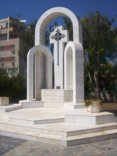 Armenian Genocide Memorial Nicosia Cyprus (2007)